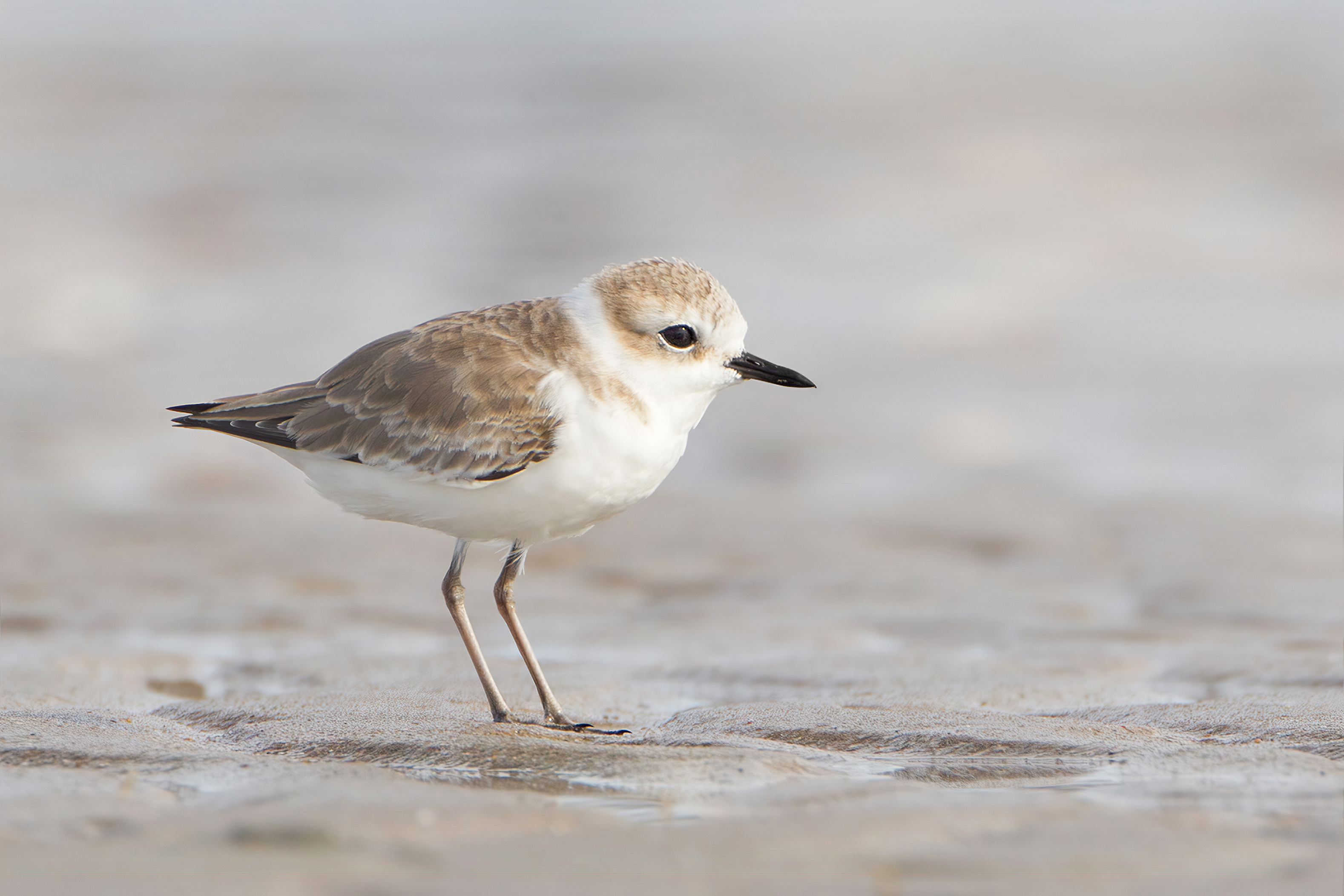 White-faced Plover (Charadrius alexandrinus dealbatus), Laem Pak Bia, Petchaburi, Thailand